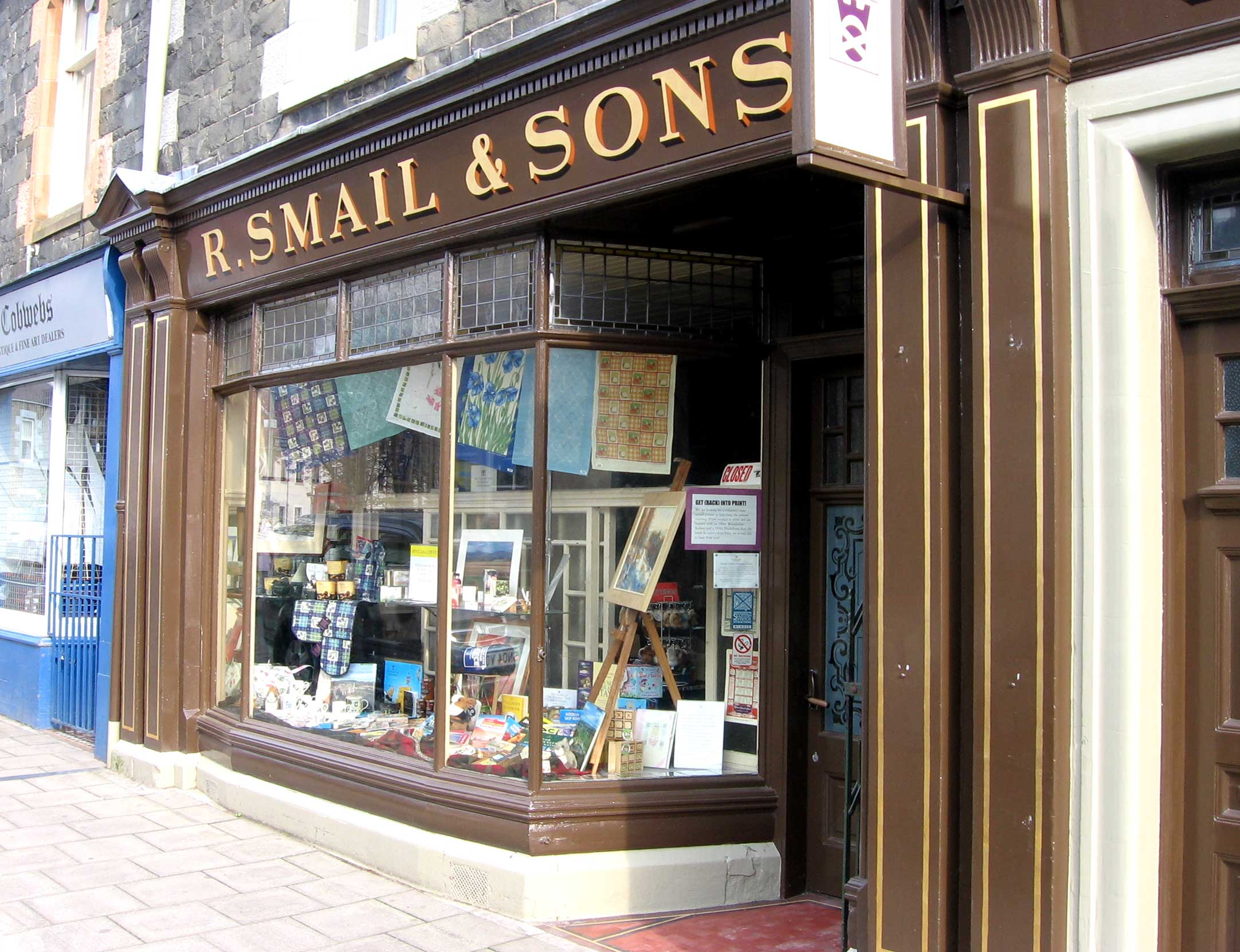 Robert Smail's Printing Works, Innerleithen, Scotland.